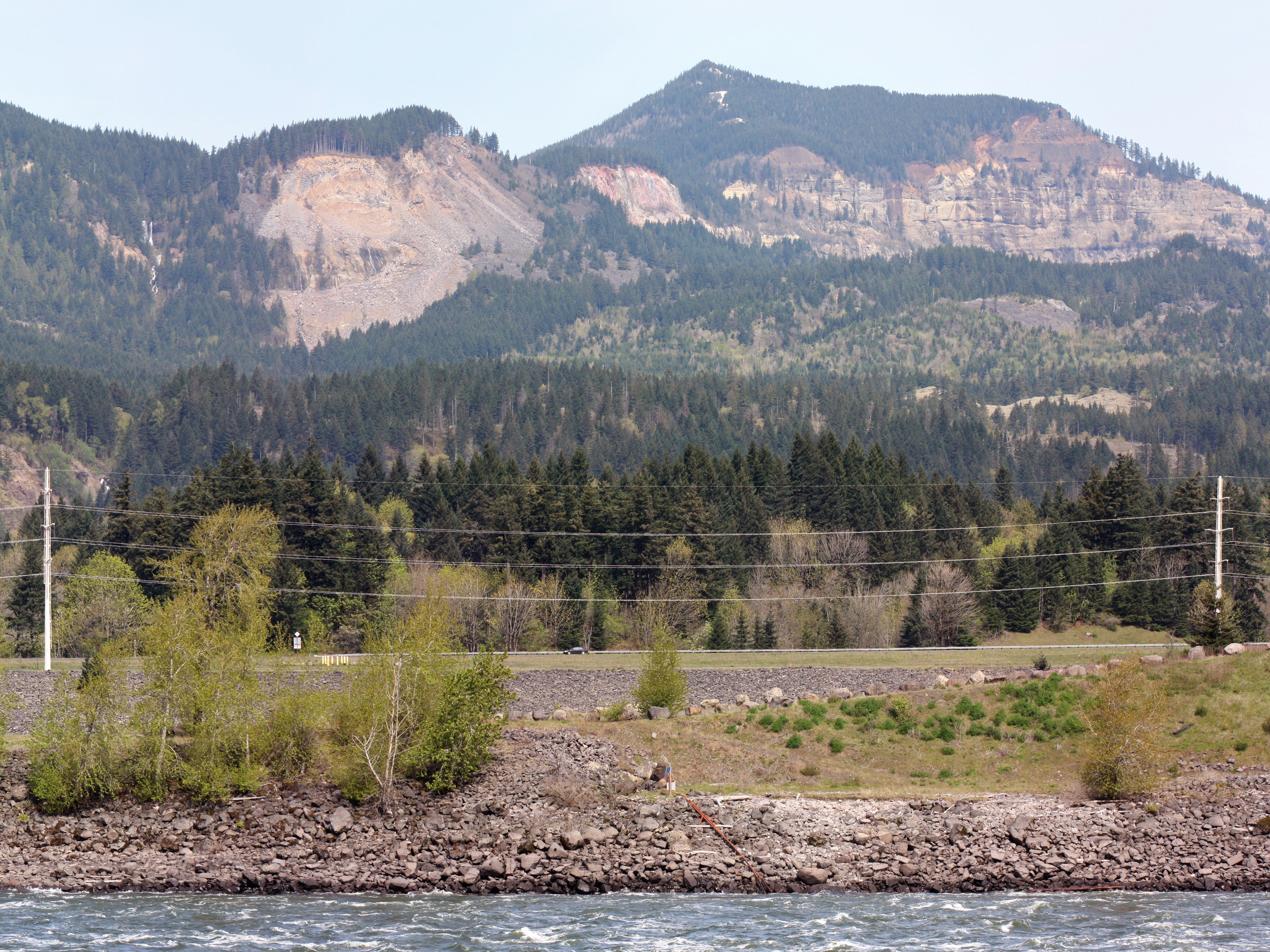 Greenleaf Peak (3422 ft, 1044 m; center skyline); Red Bluffs (below); Columbia River (foreground); Cascade Island (middle distance); north shore (behind); stitched panorama from other versions This image was created with Hugin